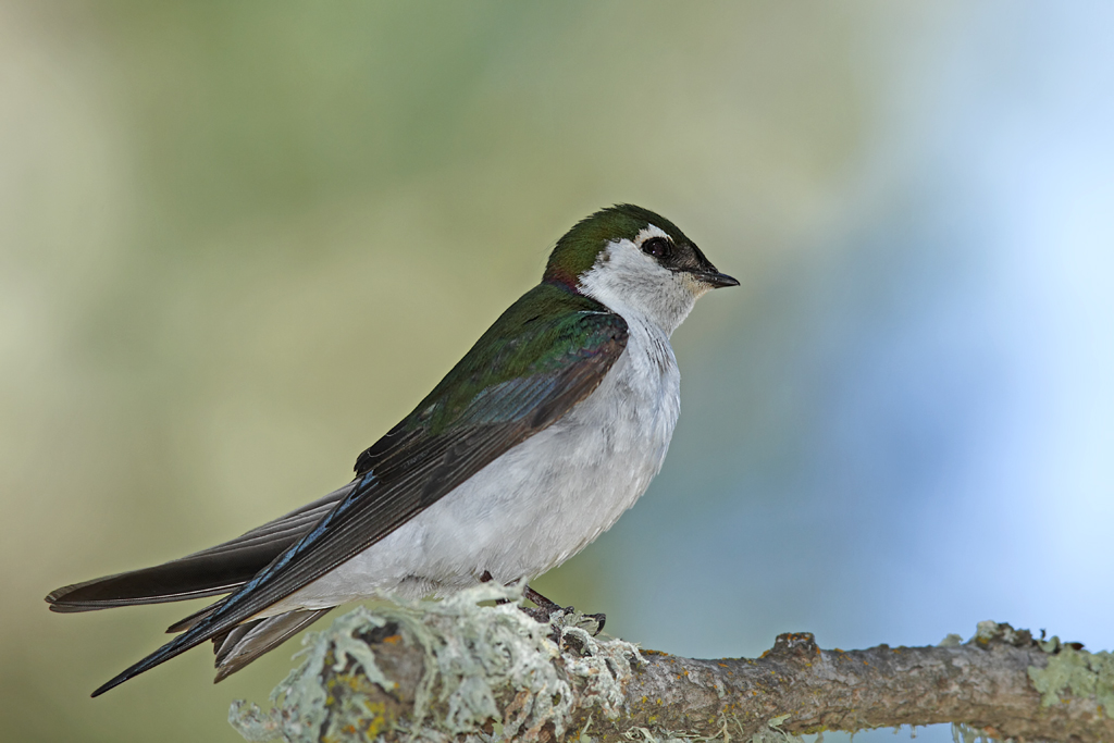 A male Violet-green Swallow in San Luis Obispo, California, USA.